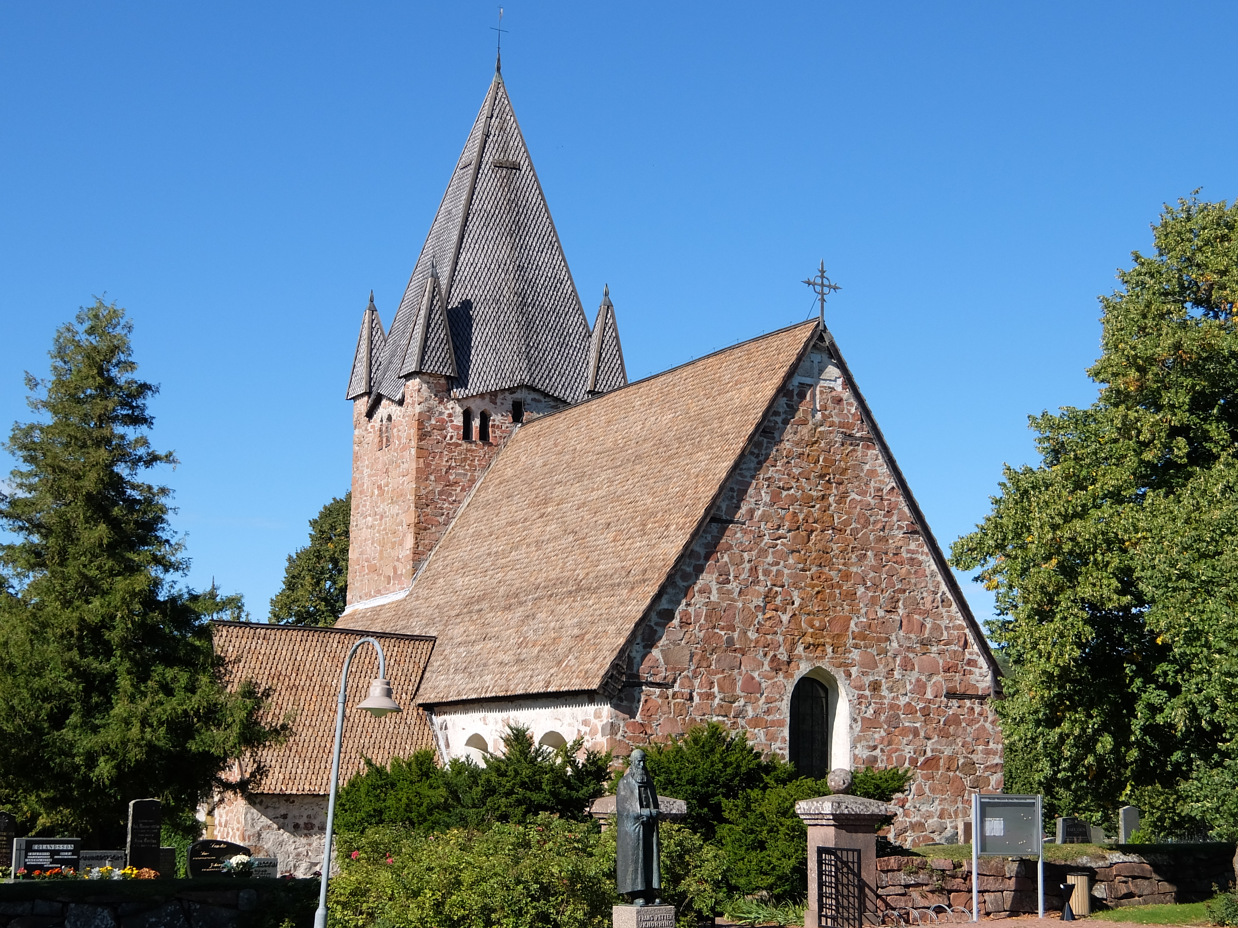 Finström church